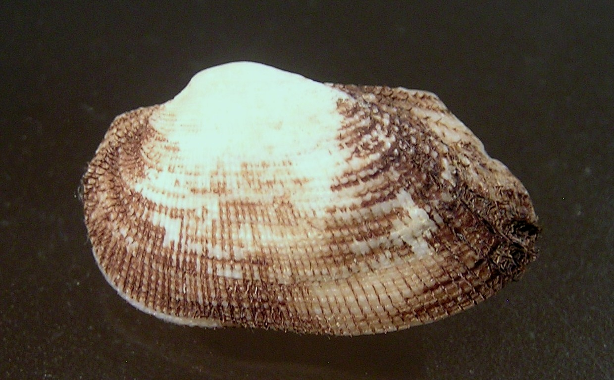 Barbatia foliata, an ark clam from the family Arcidae